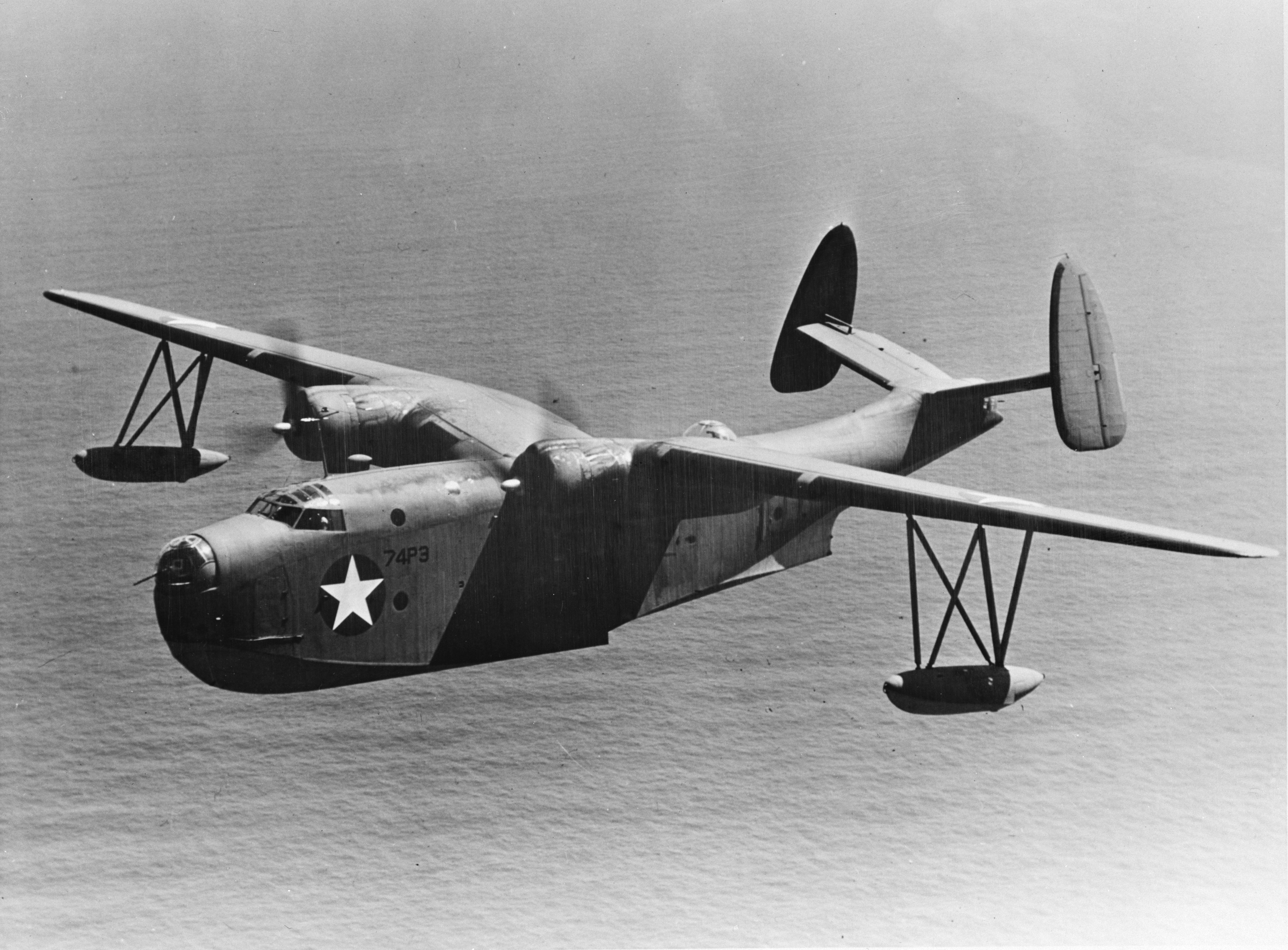 A U.S. Navy Martin PBM-3 Mariner of Patrol Squadron 74 (74-P-3), 1942. Original caption: "Aircraft. Naval. The Consolidated [Martin] "Mariner" (PBM-3) serves the Navy as a patrol bomber or transport. It is an all-metal flying boat with high gull wings. It has a speed of over 200 miles per hour, a range of over 3,000 miles, a ceiling of over 15,000 feet and a load capacity of 20,000 pounds. The crew of nine men is armed with 50-caliber."